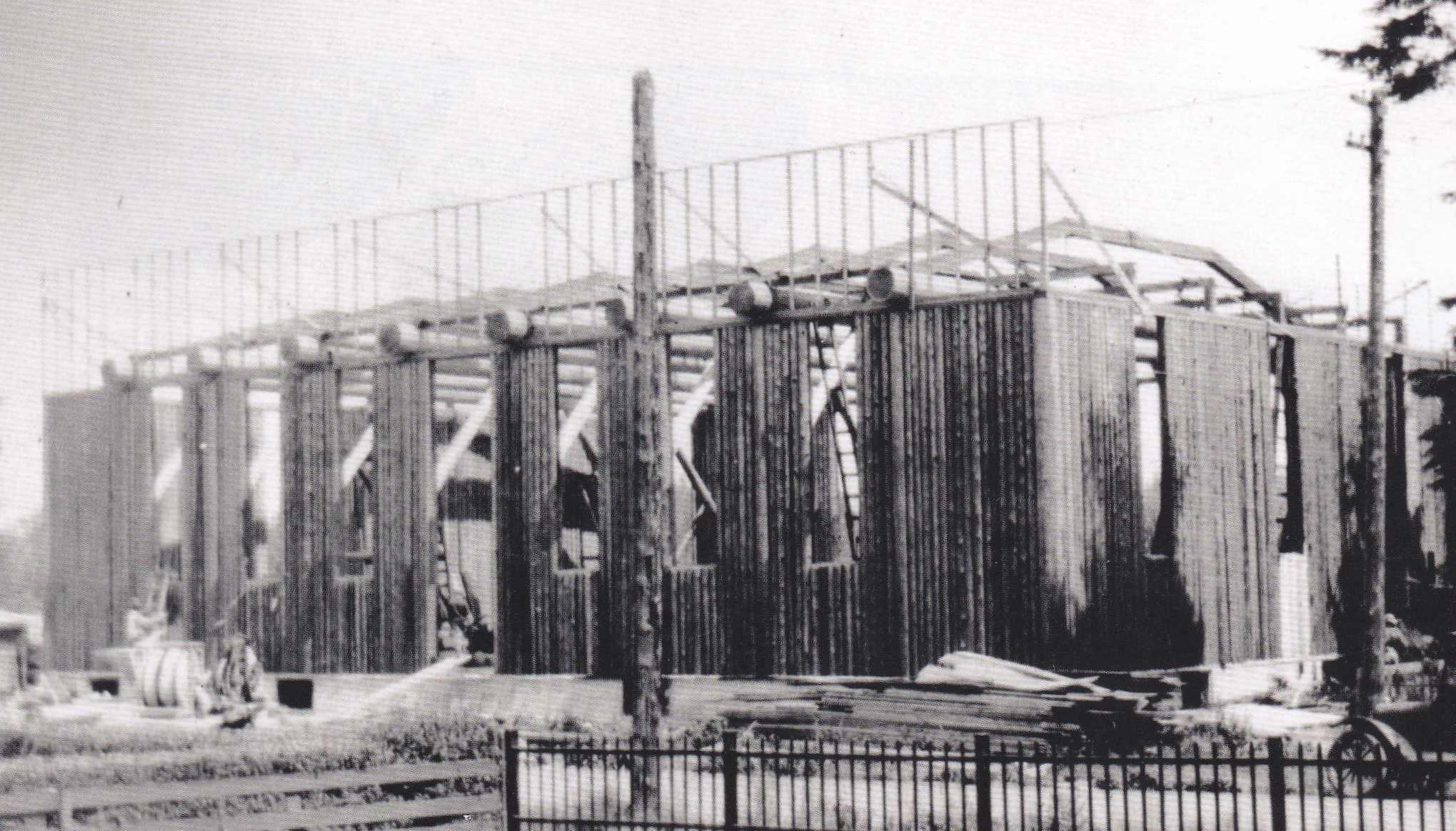 The Native Son Hall, shown under construction, is the largest freespan log building in Canada.